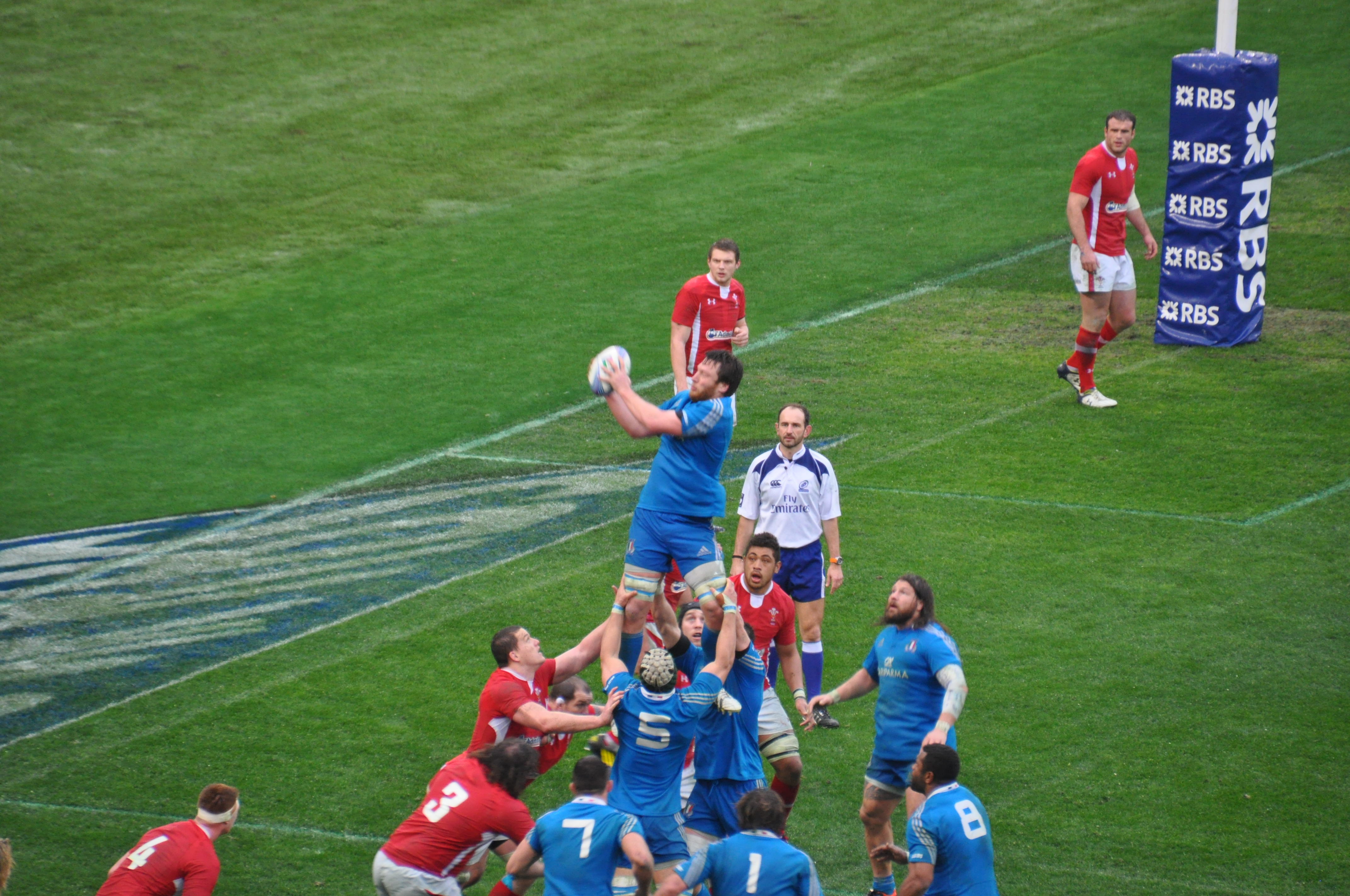 2013 Six Nations Italy vs Wales